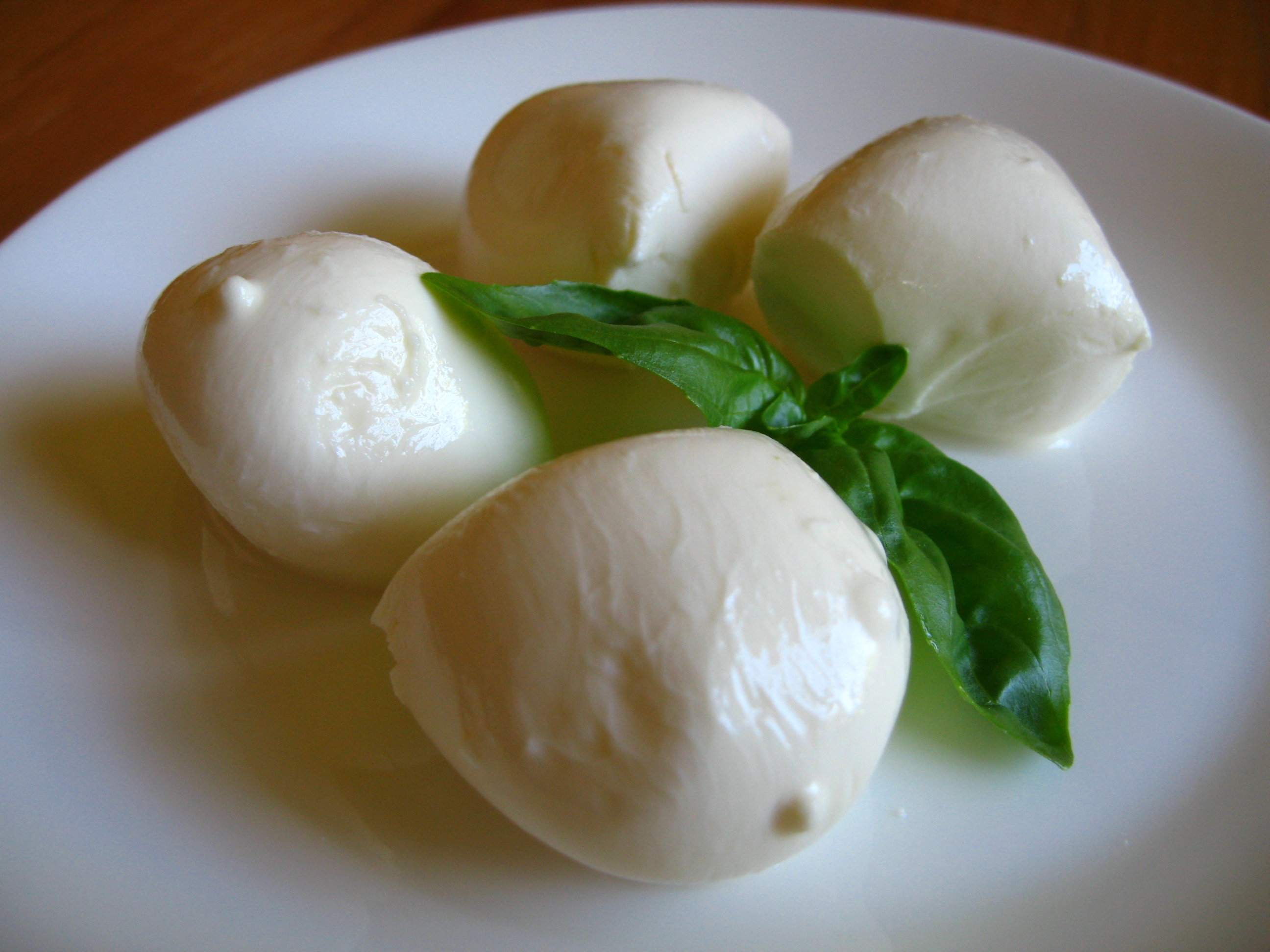 Bocconcini (in this case made from cow's milk), with a sprig of basil.